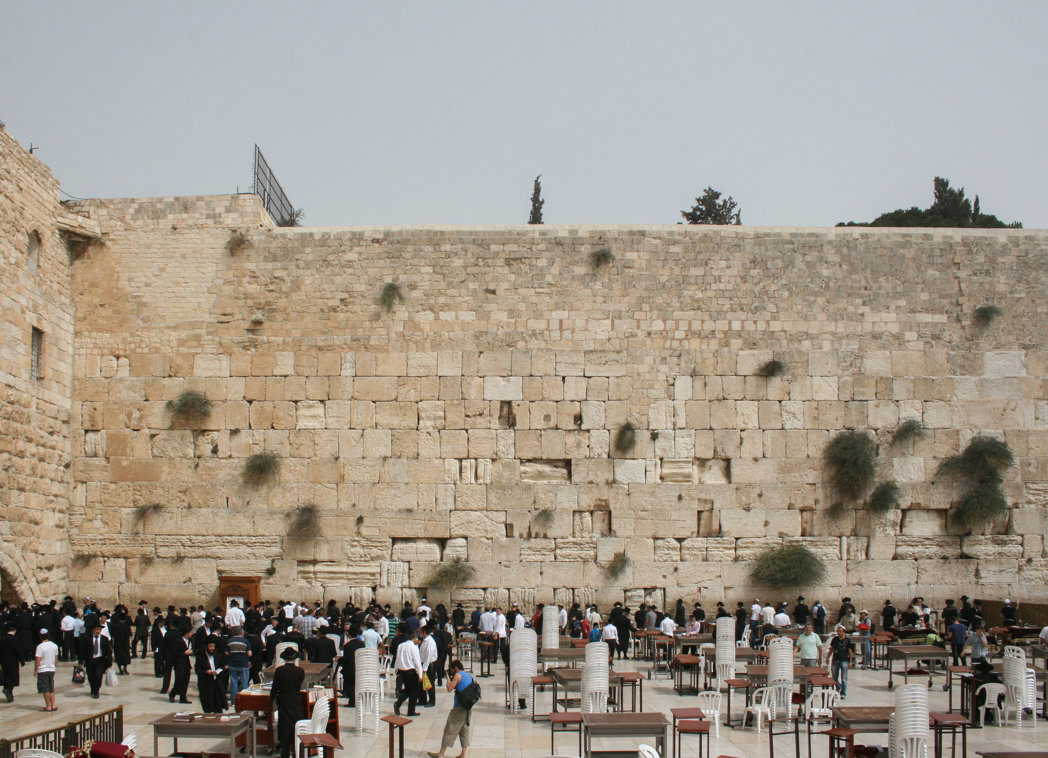 Wailing or Western Wall, Jerusalem